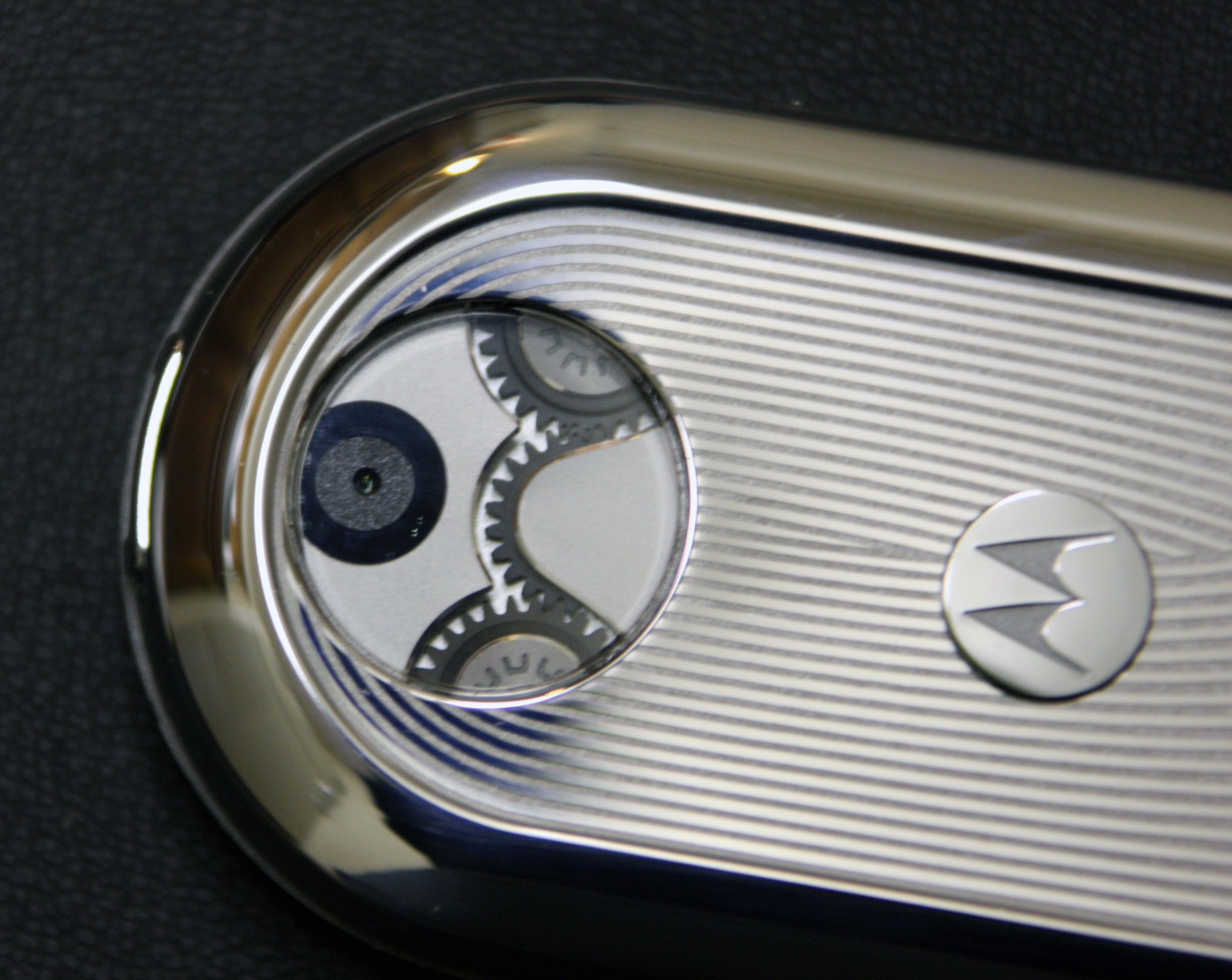 Motorola Aura closed back. This shows the gears of the opening mechanism.